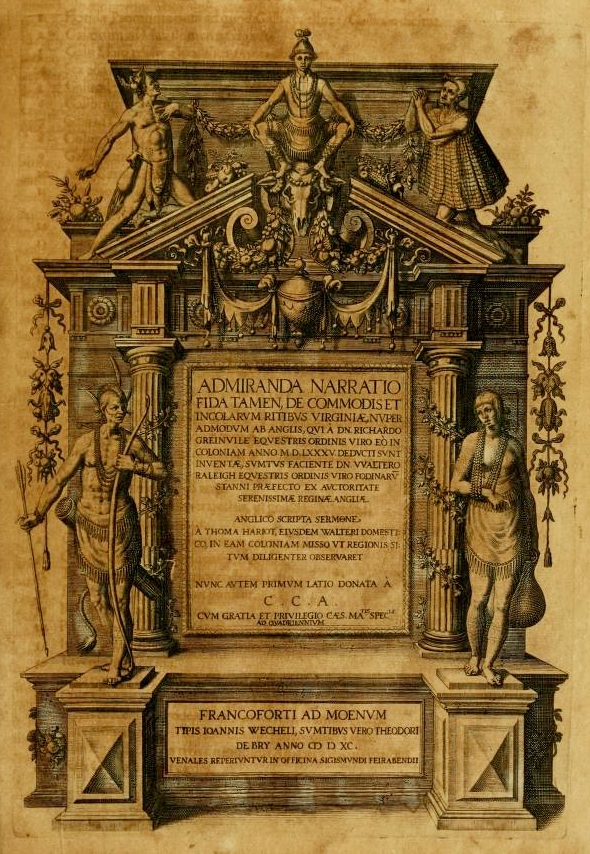 Theodorus de Bry, Admiranda Narratio (1590) title page